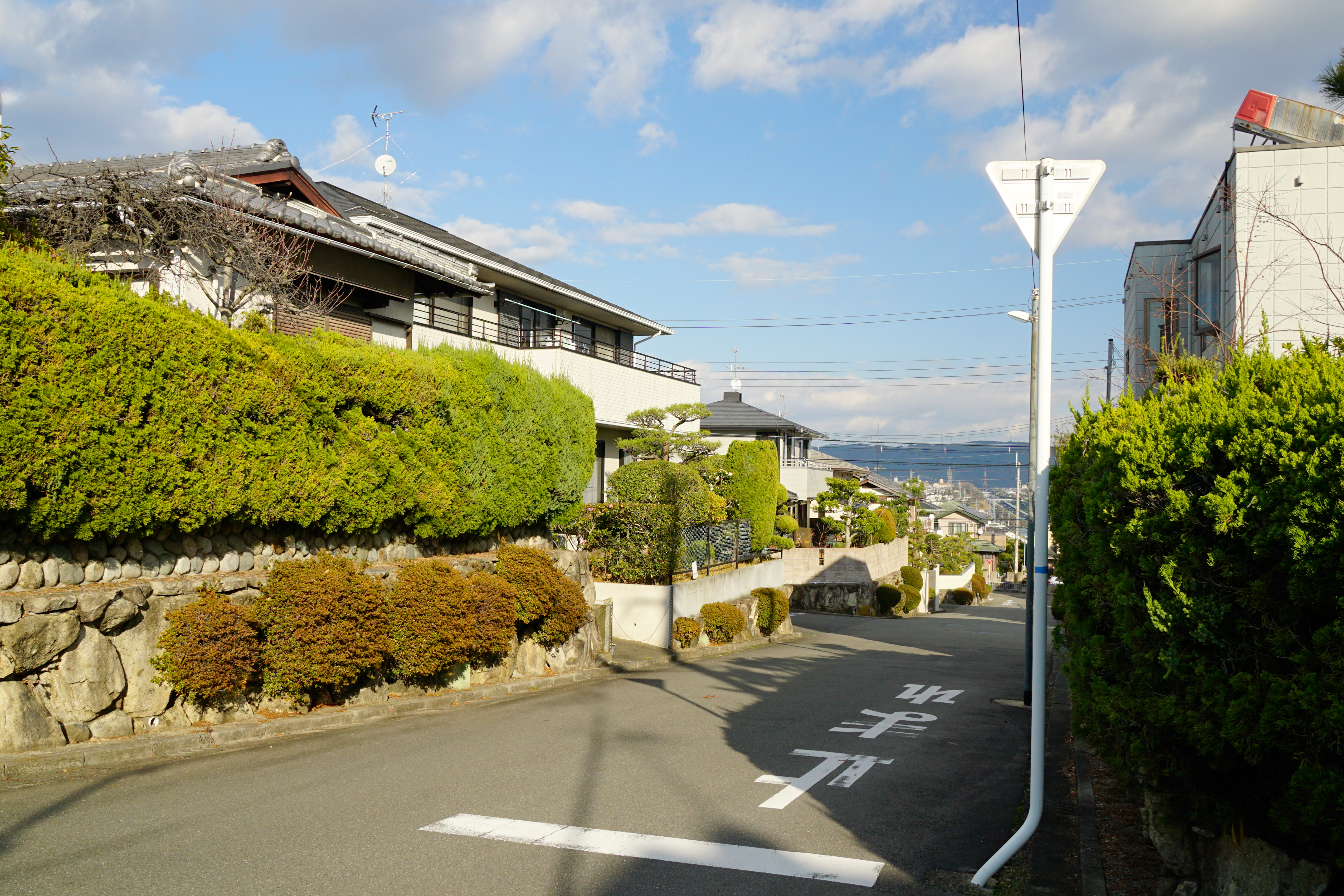 At Nanpeidai 3-chome, Takatsuki, Osaka prefecture, Japan.